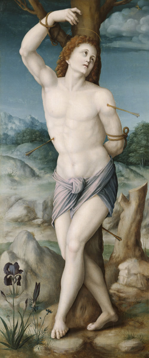 Painting of the martyrdom of Saint Sebastian.